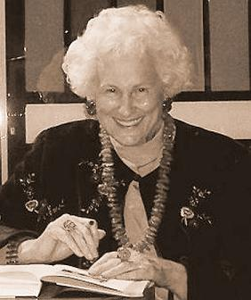 Virginia Spencer Carr, Book Signing